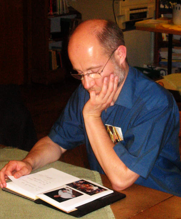 Prof. Dr. Harald Lesch during his visit at the Gymnasium Haus Overbach (Germany)